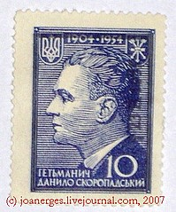 A stamp, published by Ukrainian diaspora to honour the 50th anniversary of Prince Danylo